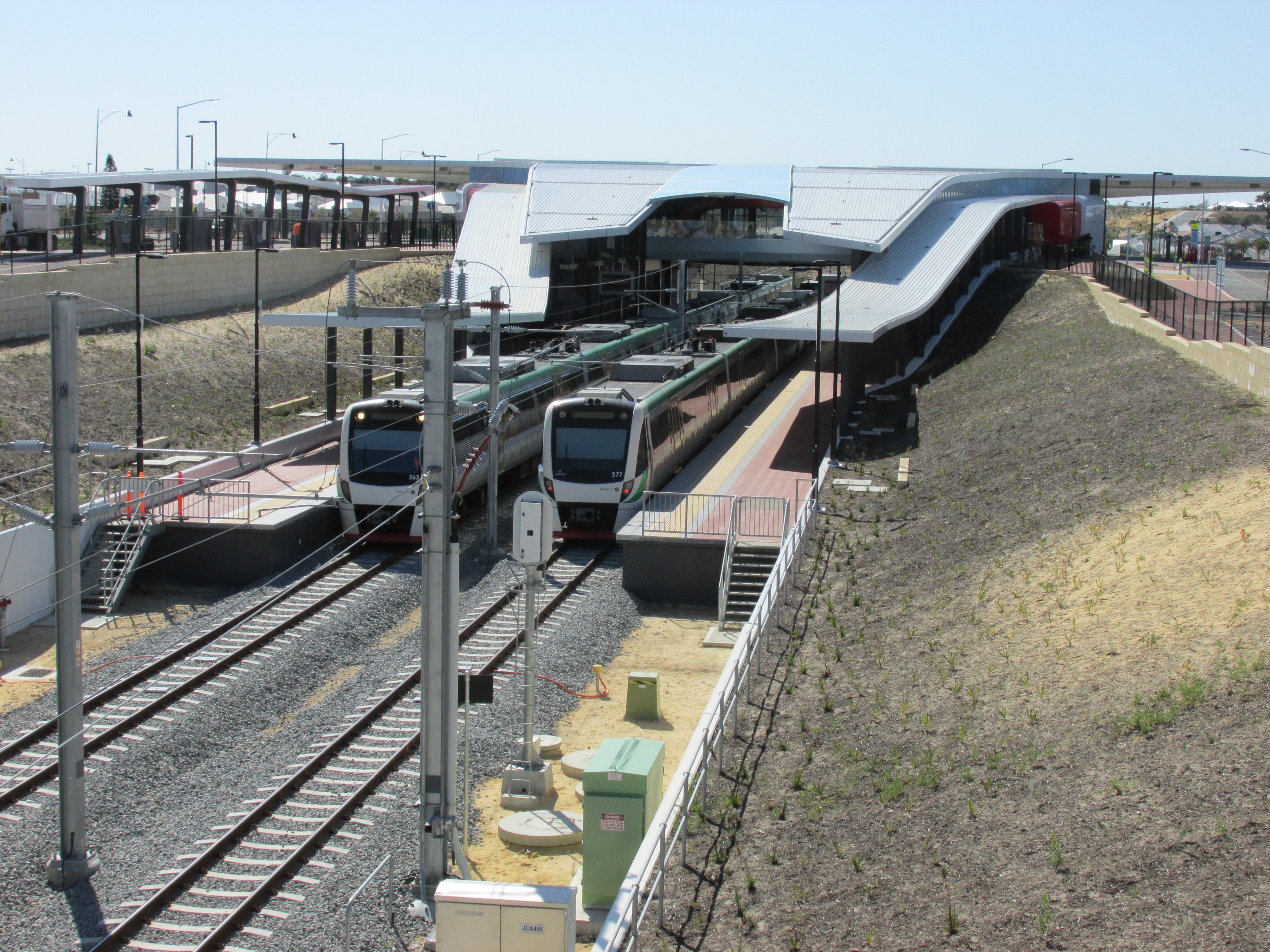 Two Transperth B-series trains in Butler railway station, Butler, Western Australia, seen from the Butler Boulevard bridge five days before the station's opening.